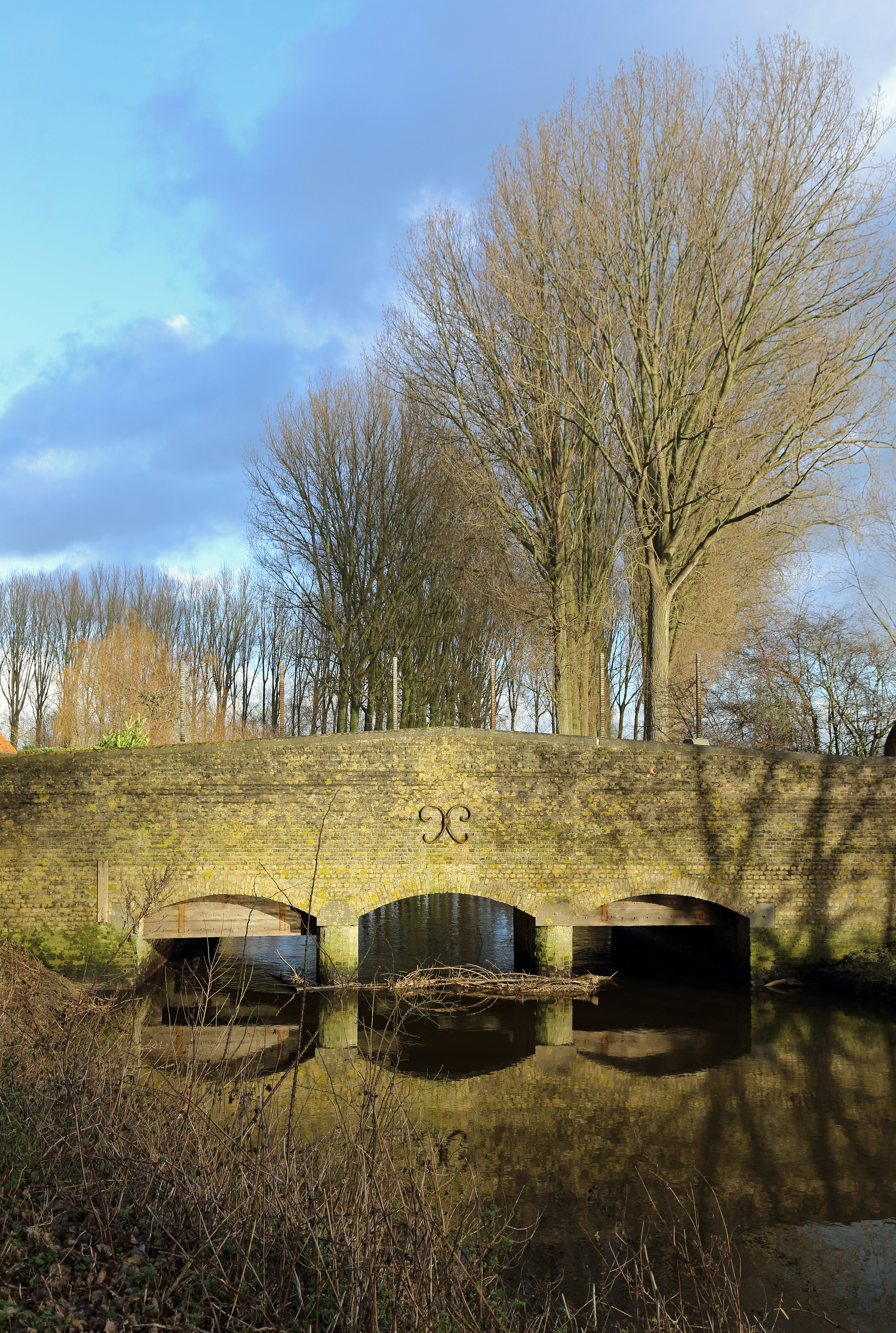 Damme (Belgium): the bridge on the Zuidervaartje canal